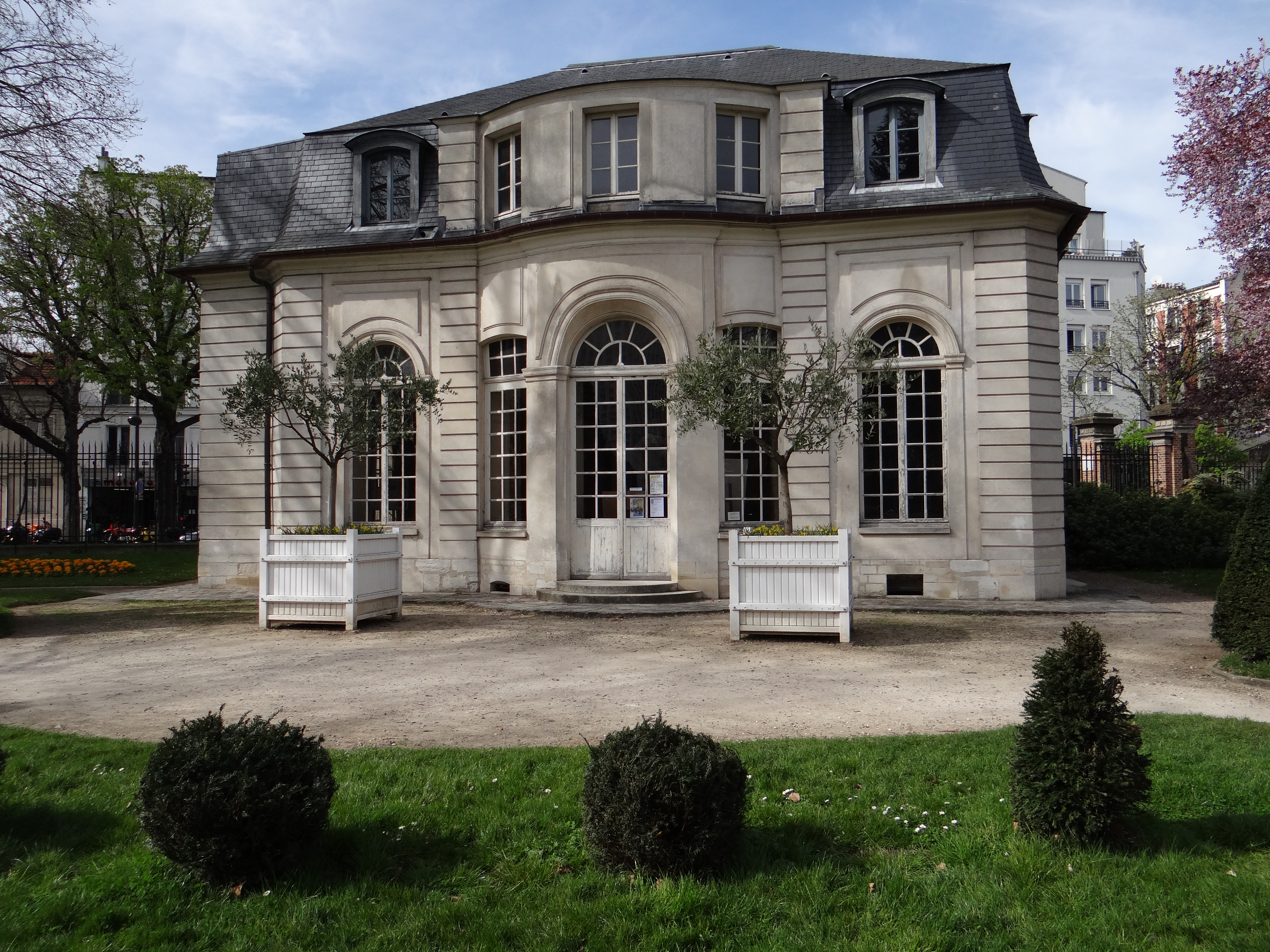 Pavillon de l'Ermitage, south facade garden side, Paris twentieth arrondissement, France. Historic Monuments. .